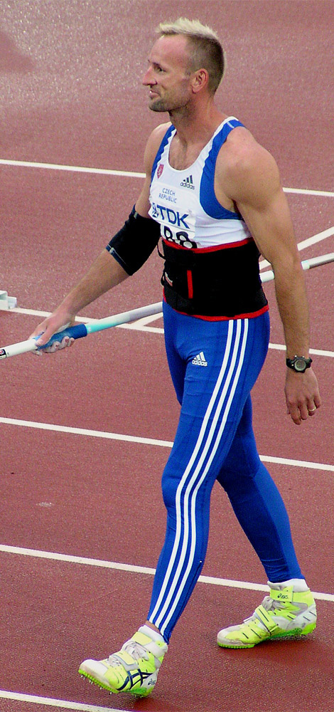 Tomáš Dvořák, WorldChampionships Athletics 2005 in Helsinki